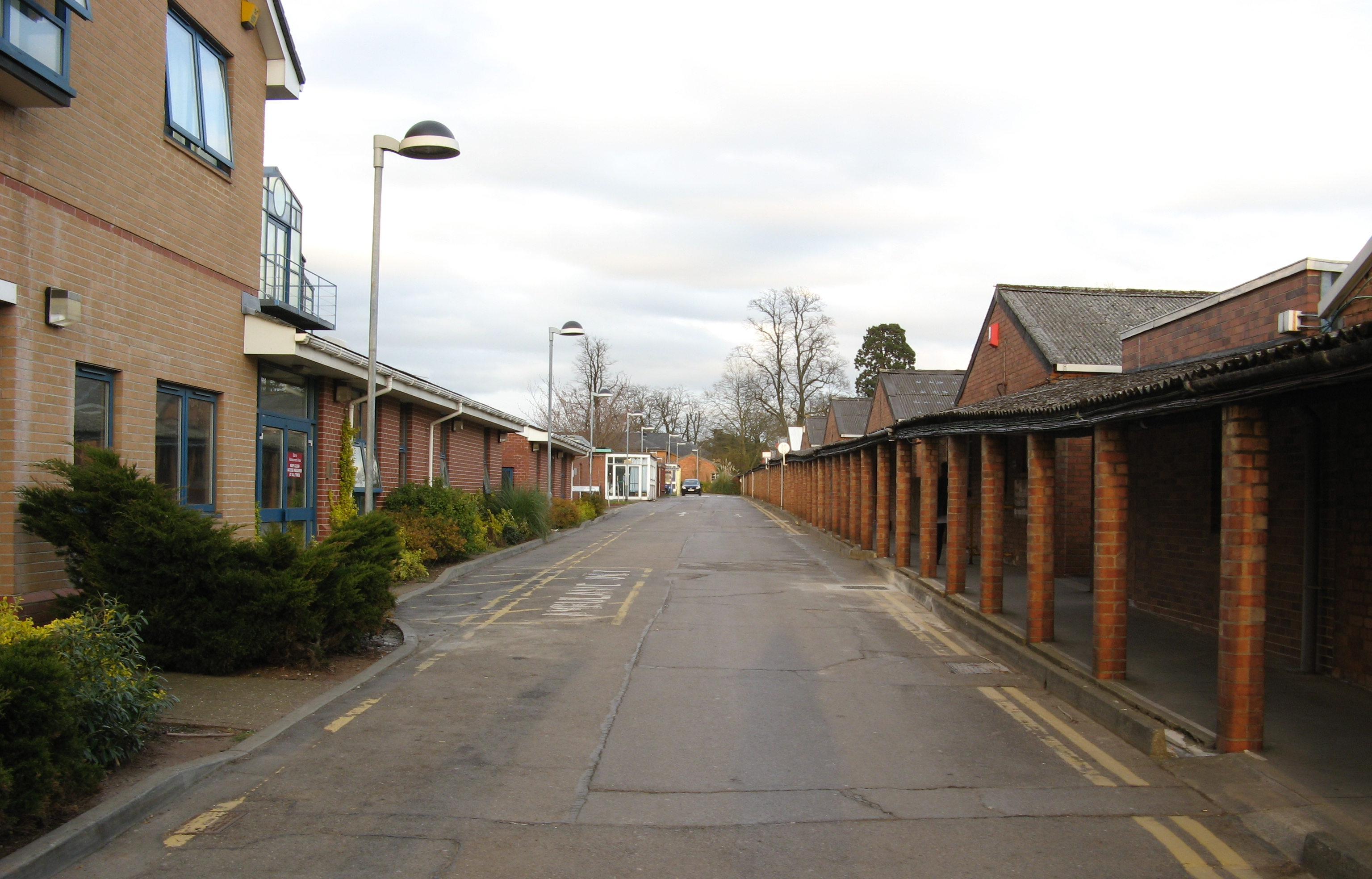 Frenchay Hospital, Bristol, showing new (left) and World War II buildings (right) in use in 2009.